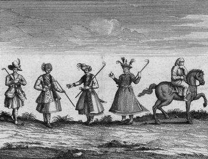 Customs: Men's clothing in Safavid times.